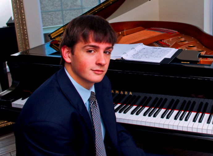 Jazz musician Donald Wolcott